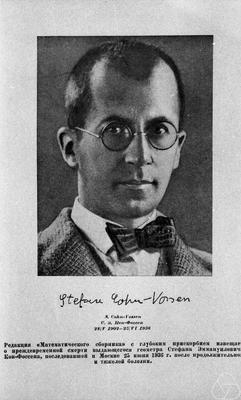 Stephan Cohn-Vossen, 1936?, Moscow